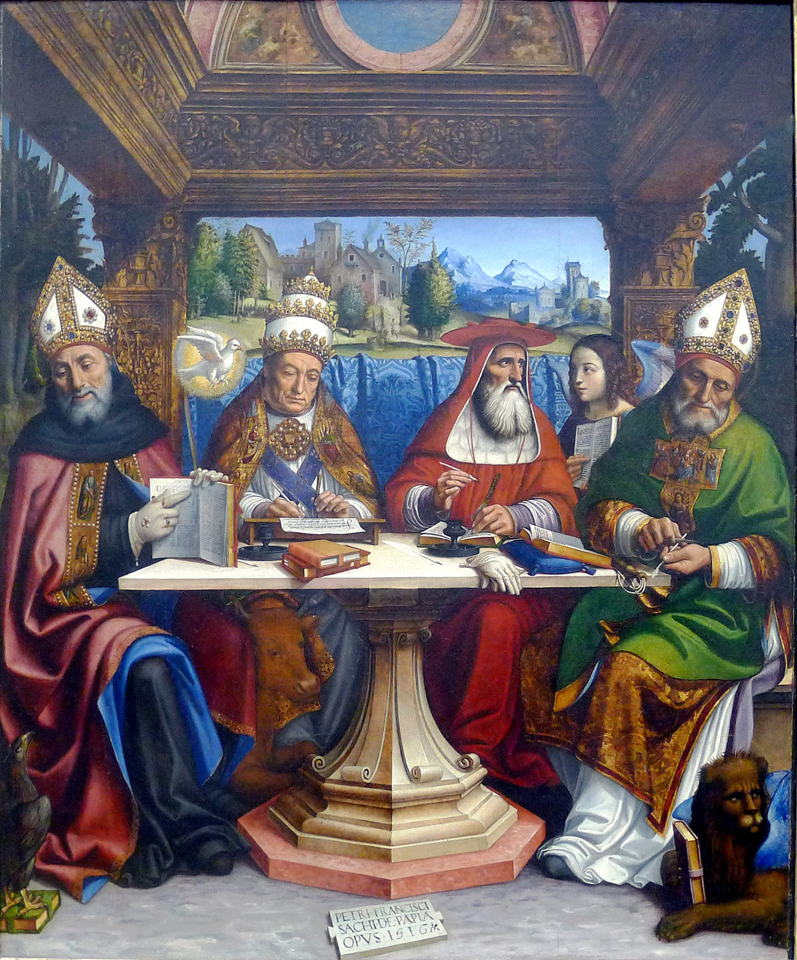 Four doctors of the Church represented with attributes of the Four Evangelists: St. Augustine with an eagle, St. Gregory the Great with a bull, St. Hieronymus with an angel, St. Ambrosius with a winged lion.